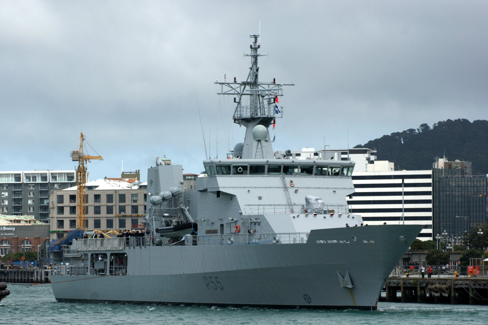 HMNZS Wellington on Wellington Harbour